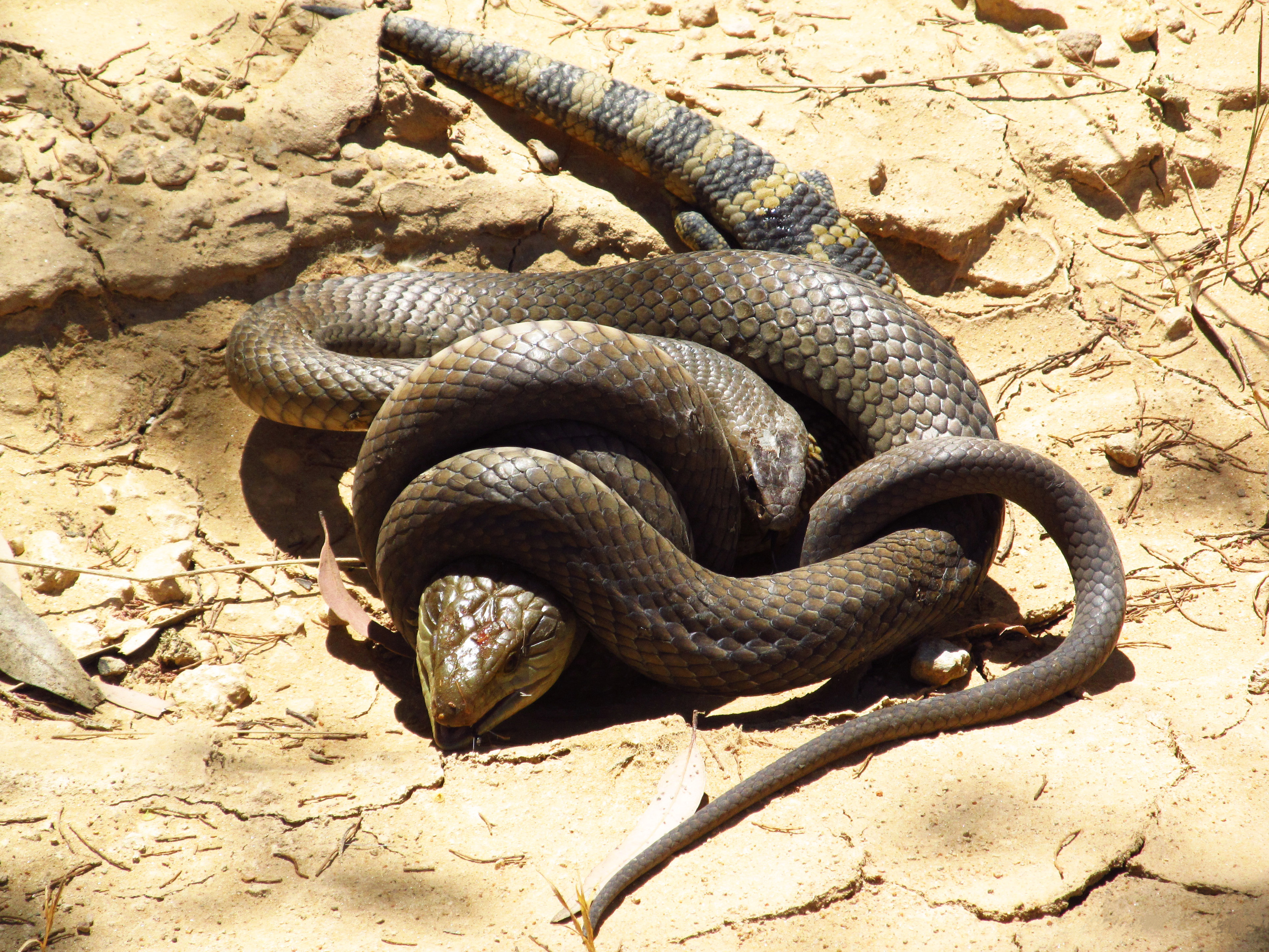 Northern Victoria. (Pseudonaja textilis VS Tiliqua scincoides scincoides)